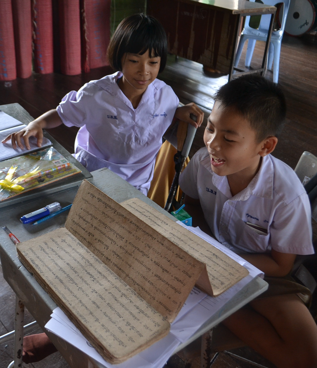 Samut_Khoi- Wat Kungtapao Folk Museum. Wat Khung Taphao, Ban Khung Taphao, Khung Taphao subdistrict, Mueang Uttaradit, Uttaradit Province, Thailand.